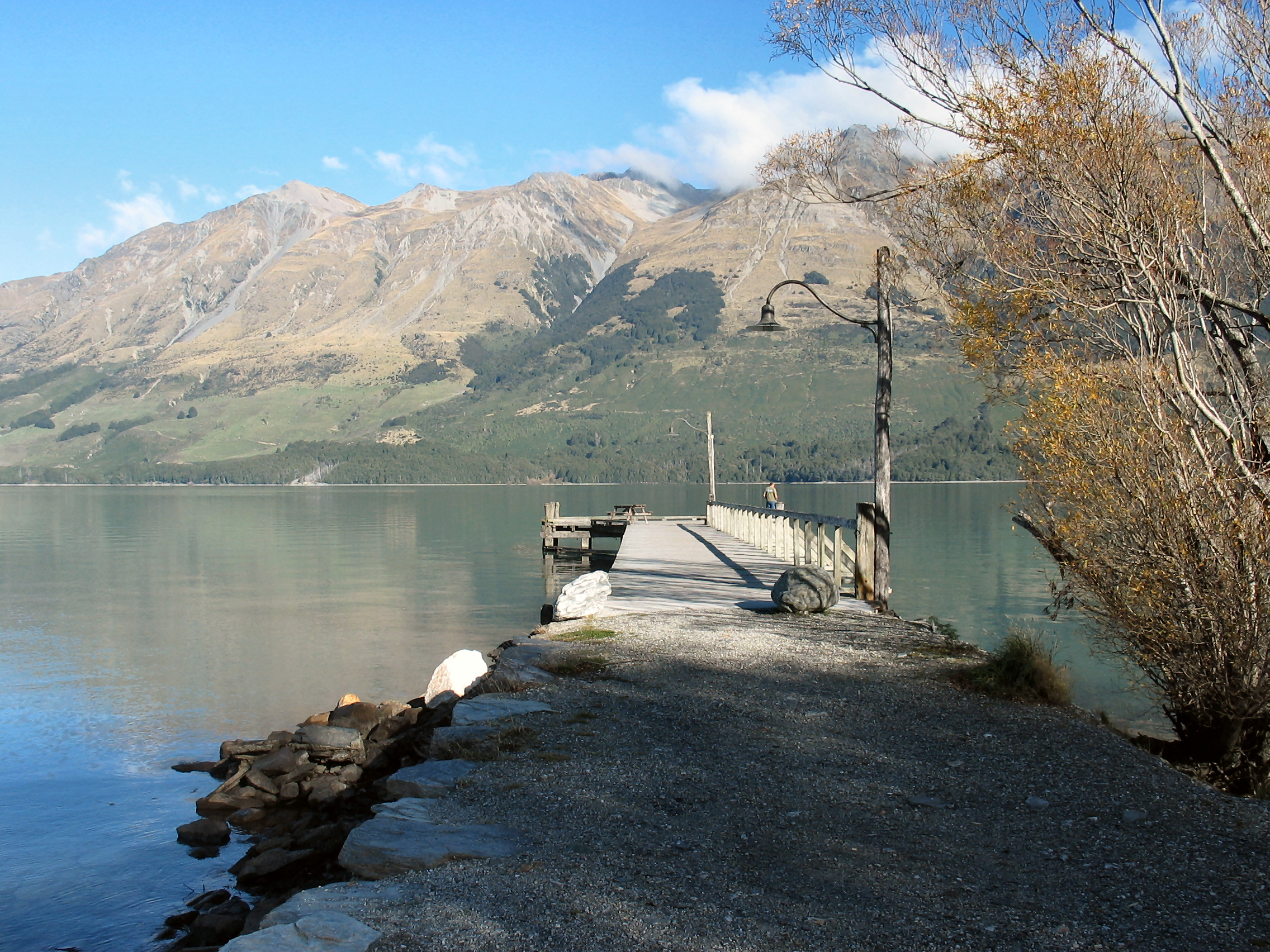 Glenorchy, Otago, New Zealand. Looking at Lake Wakatipu. Photo taken on 24 April 2006